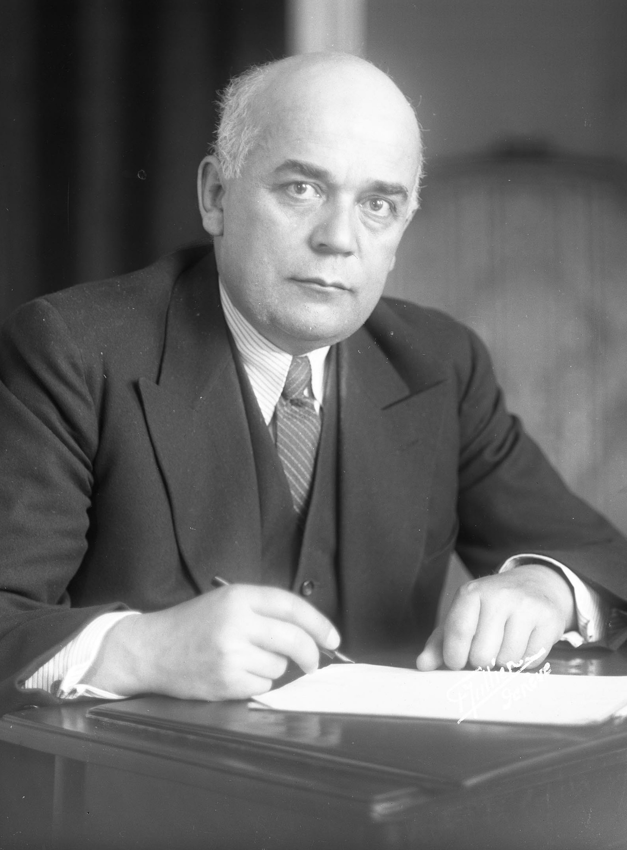 Portrait of Léon Nicole, a leader of the Communist Party of Switzerland, member of the Swiss National Council, April 1933.